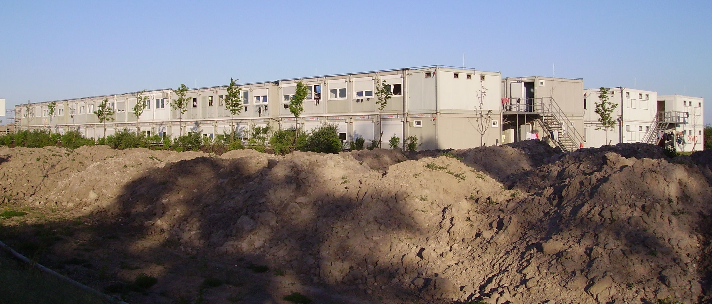 view of Mutterstadt, Germany